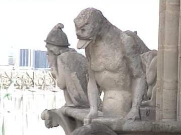 Photo of chimeras in Notre Dame (Paris)